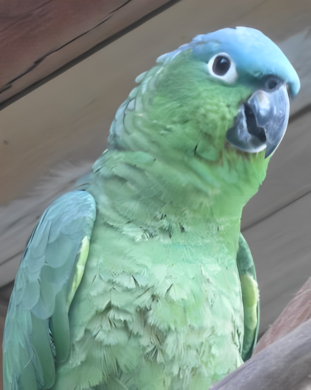 Mealy Amazon (Amazona farinosa) in Guatemala.